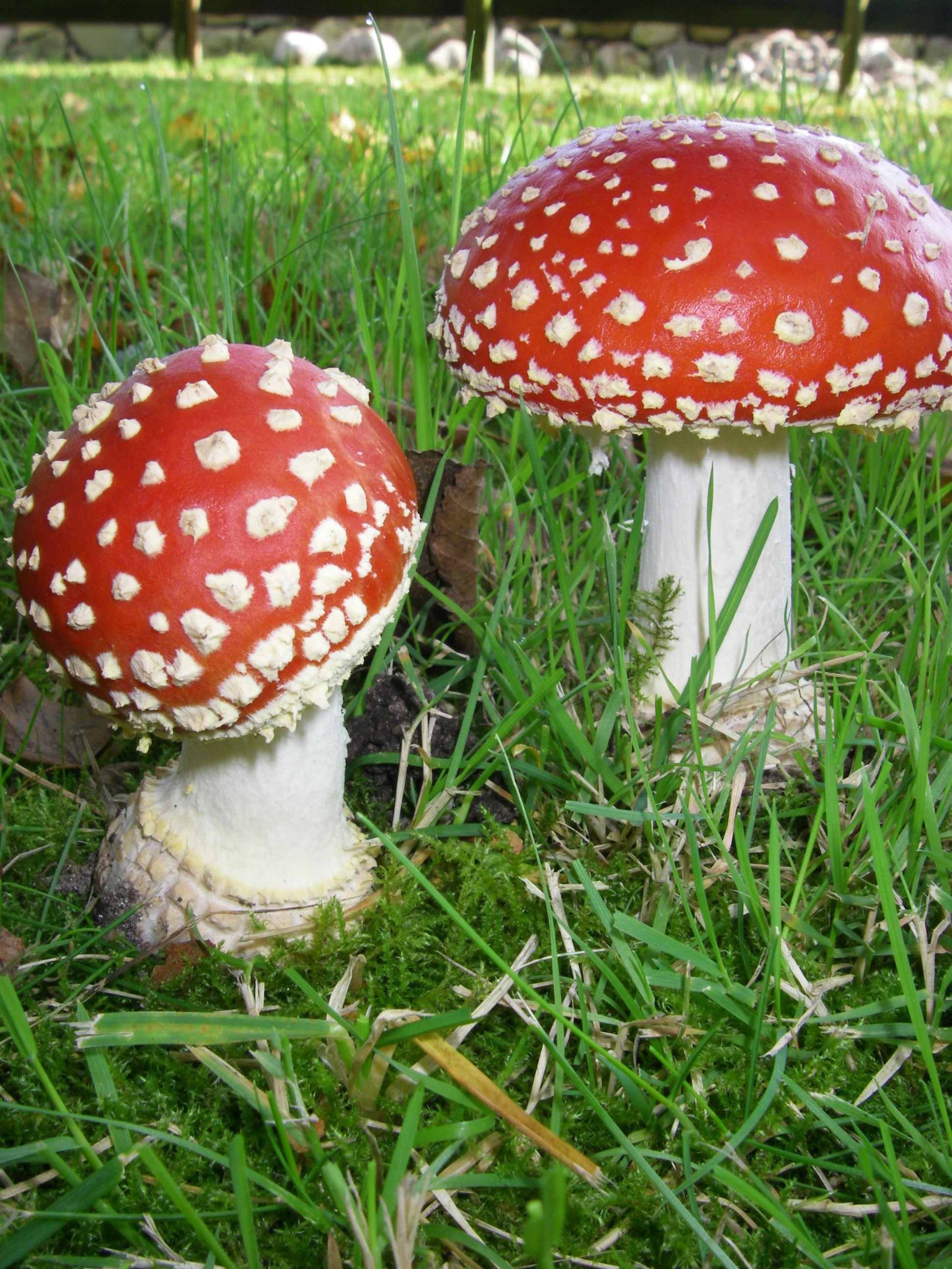 The making of this document was supported by the Community-Budget of Wikimedia Germany.